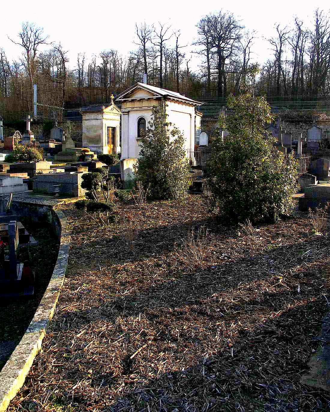 pauper's cemetery of Saint-Louis in Versailles